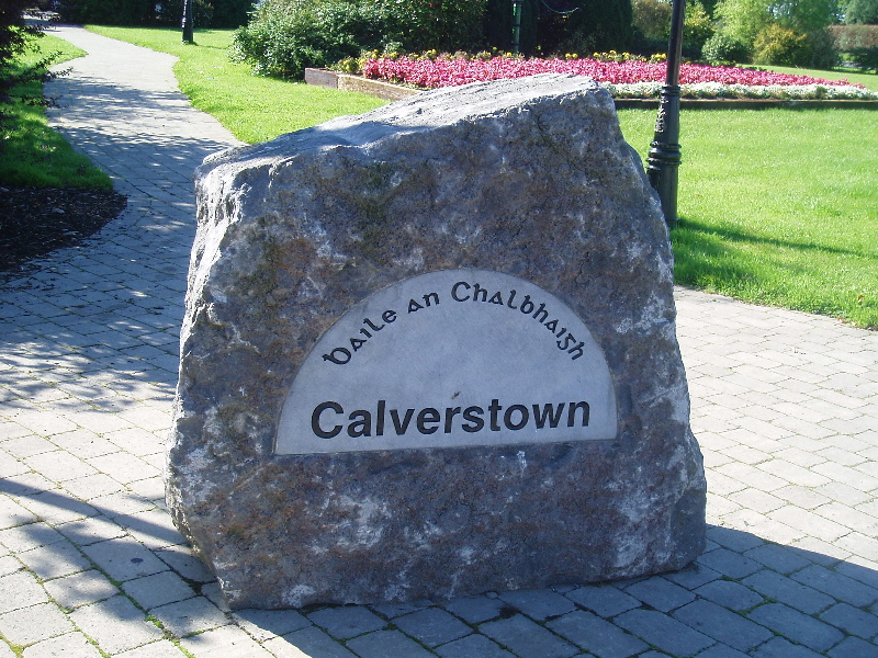 Description: Photograph of the Calverstown Stone with the name of the village in both Irish and in English. Source: jemcmahon, resident Date: 15 September 2006 Location: On the green in Calverstown Author: jemcmahon Permission: Public Domain Other versions of this file: None